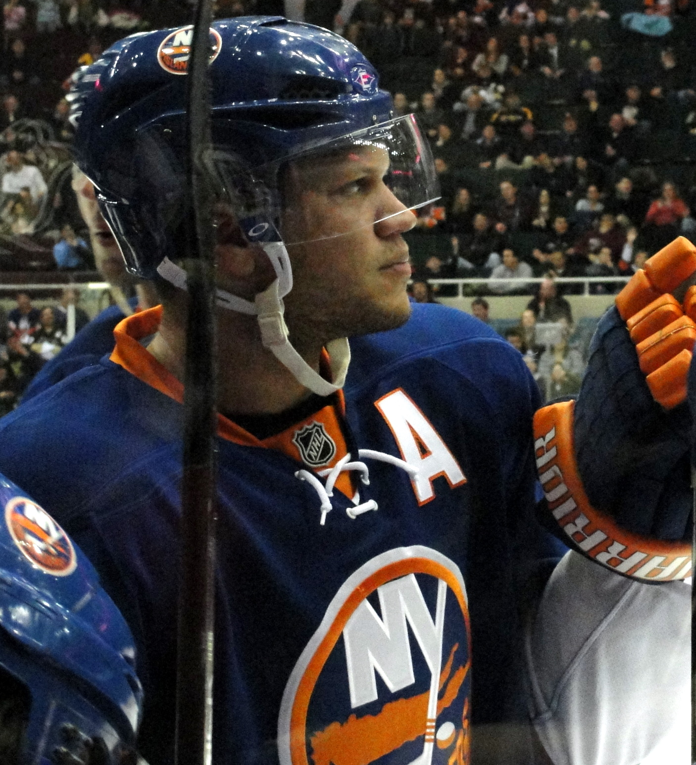 New York Islanders forward Kyle Okpose during the February 11, 2011 "Brawl on Long Island" game against the Pittsburgh Penguins at Nassau Veterans Memorial Coliseum in Uniondale, NY.